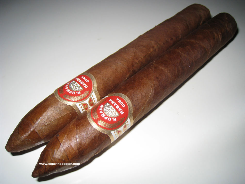 Cigars